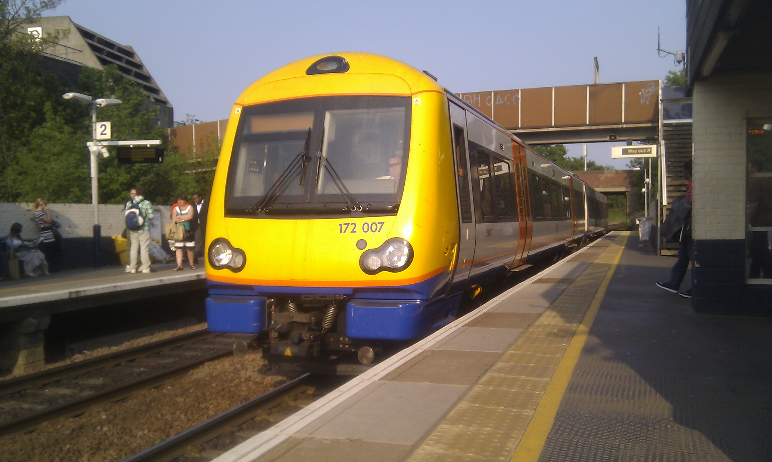 A London Overground Class 172 DMU arriving at Blackhorse Road